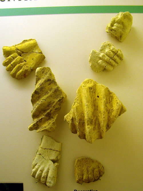 Plaster fragment, found at Roman villa at Gorhambury, England